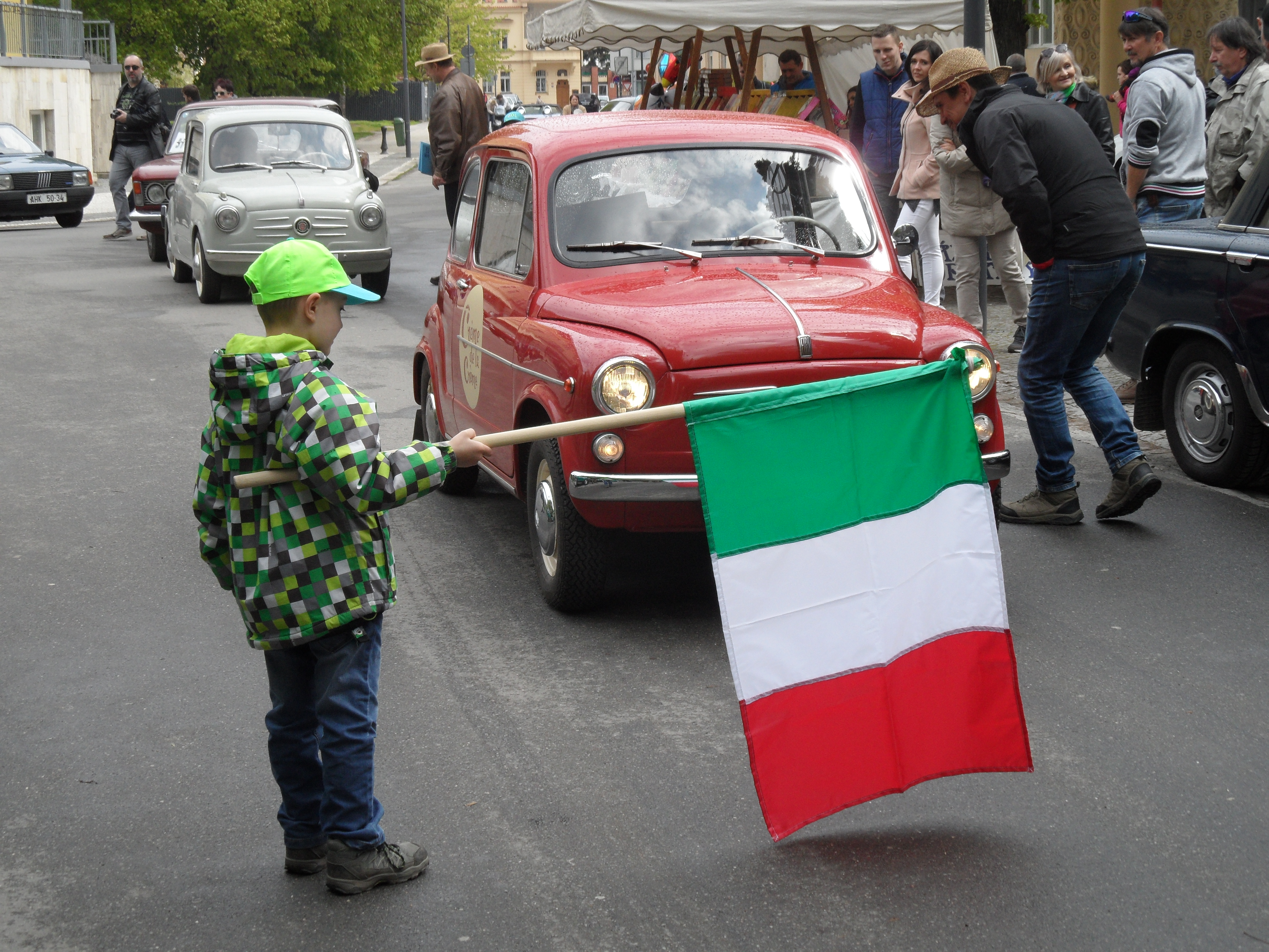 18th Meeting of Italian Car in Poděbrady; Nymburk District, the Czech Republic. Fiat 750 on the Start.